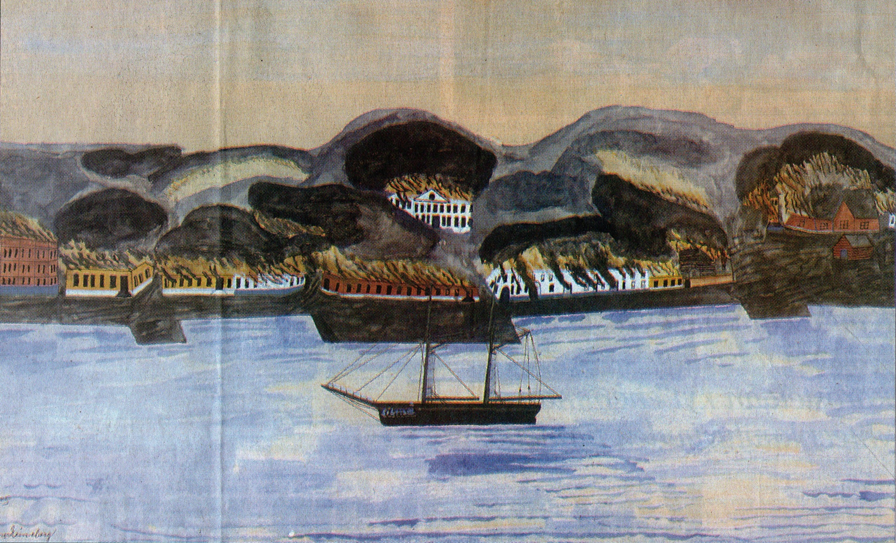 The Great Fire of Pori 1852. Unknown painter 1852.